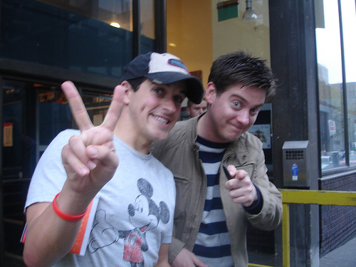 UK TV Presenters Dick (r) and Dom (l)